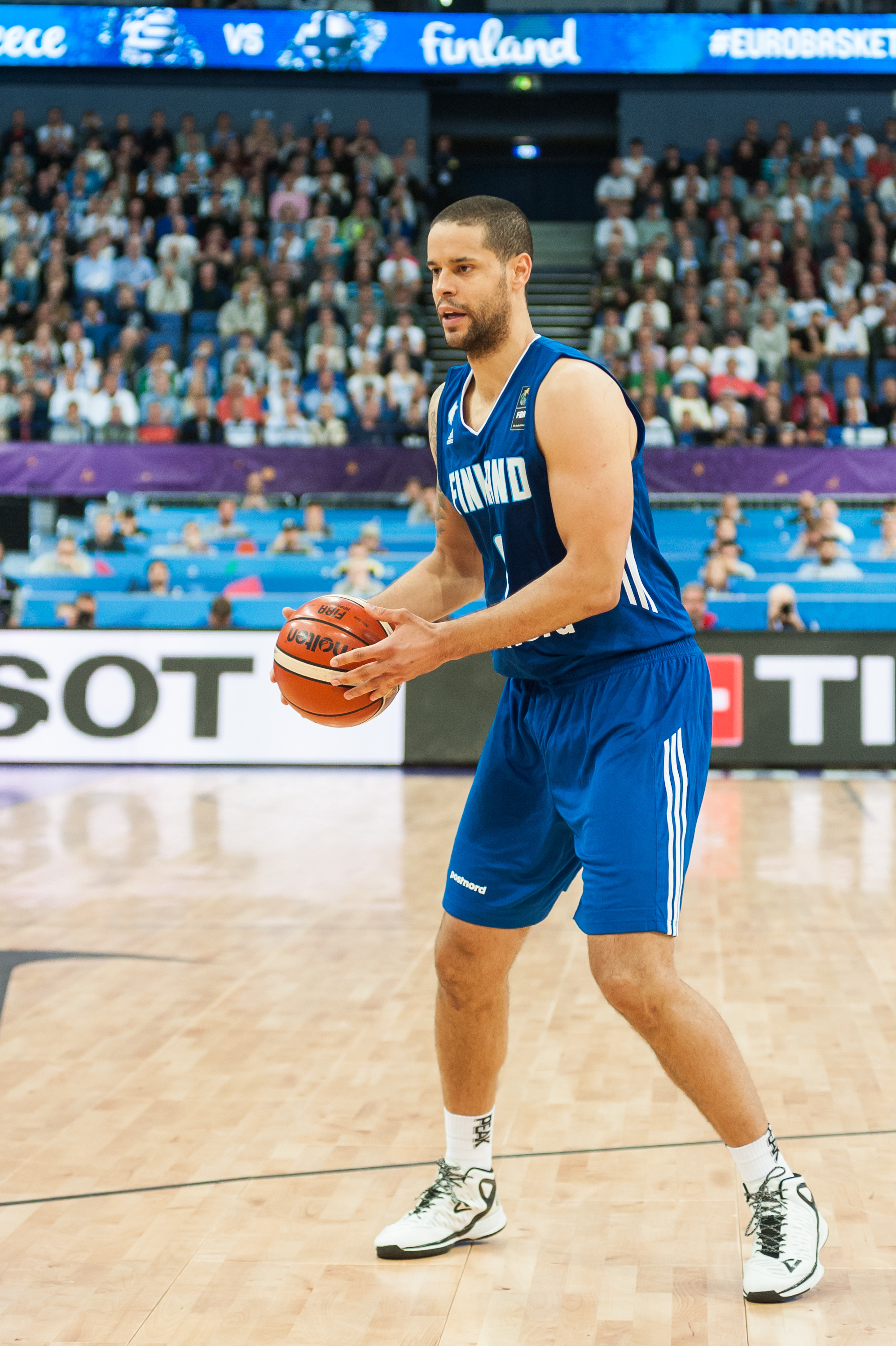 EuroBasket 2017 Group A game between Greece and Finland at Hartwall Arena in Helsinki, Finland.